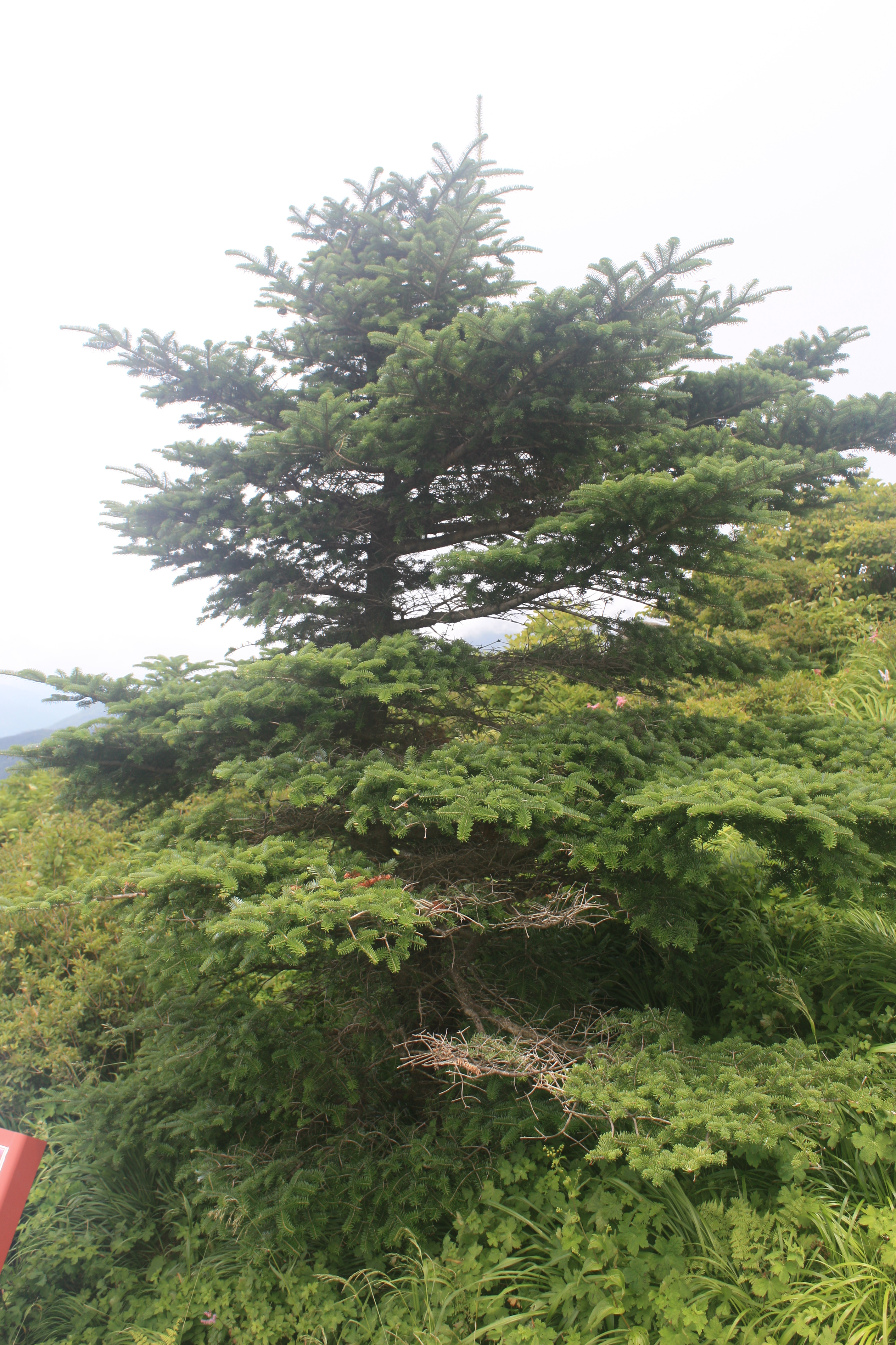 Abies koreana, Nogodan, Jirisan, South Korea